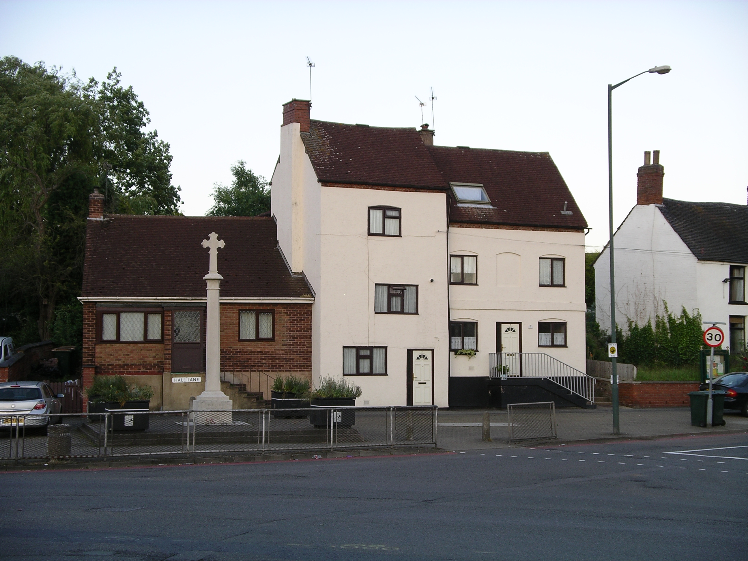 War memorial (1914-1918) in Walsgrave, Coventry, England.